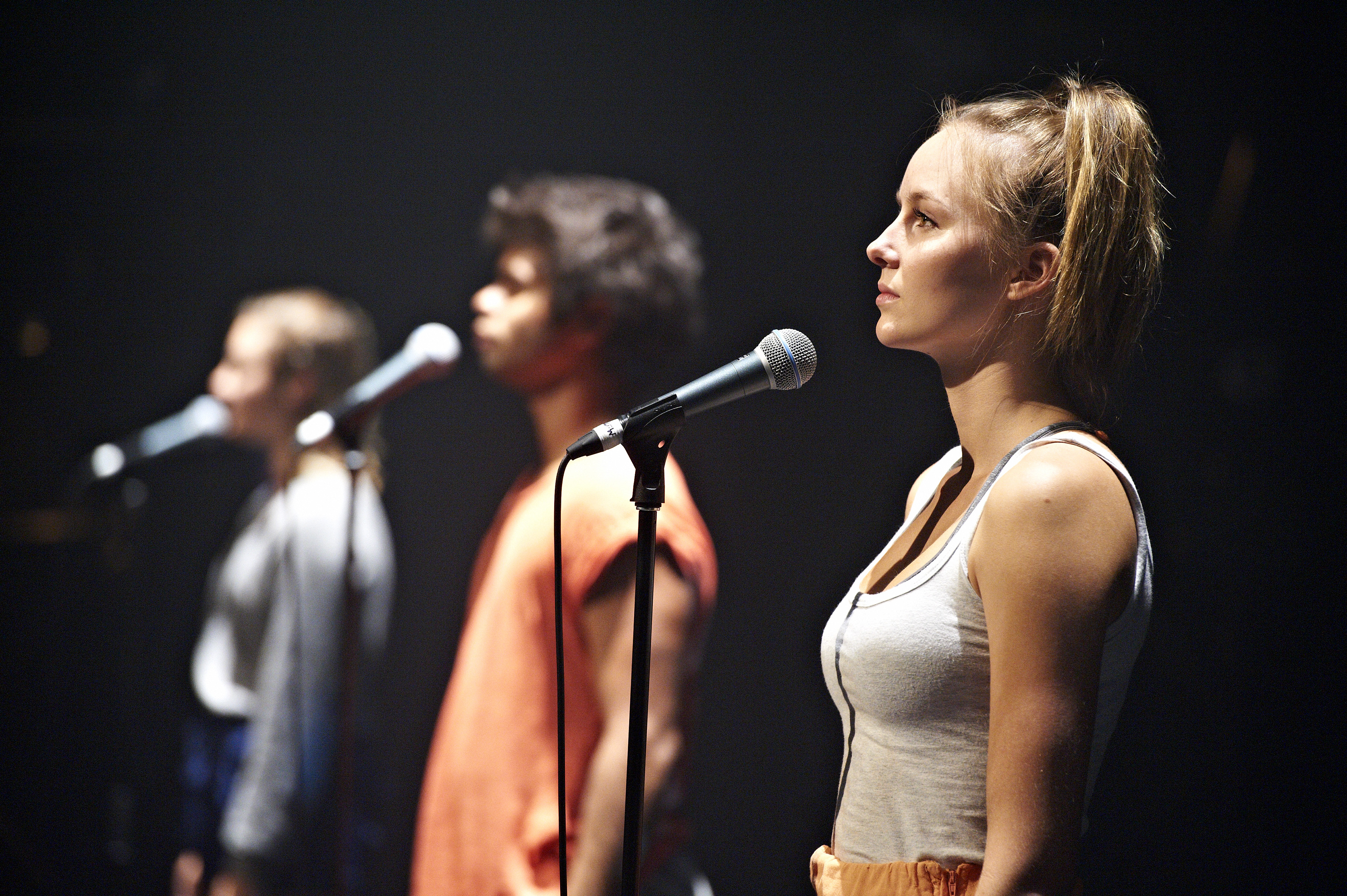 Left to right: Thalia Livingstone, Michael Smith and Rikki Bremner